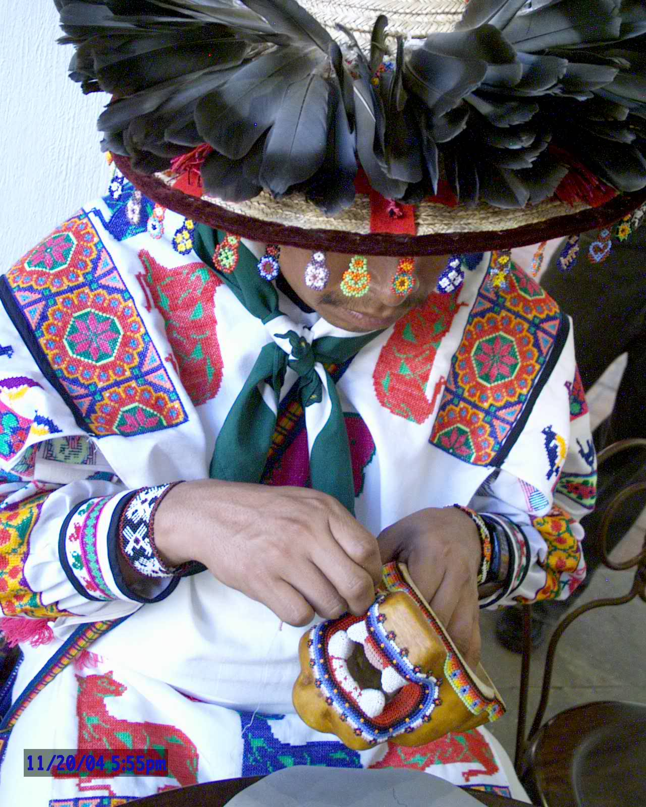 Huichol Trabajando, 20 Dic 2004 by Mario Jareda Beivide